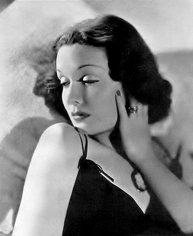 Publicity photo of Gail Patrick for Argentinean Magazine. (Printed in USA)